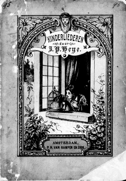 First page of a songbook with children's songs of Jan Pieter Heije: "Kinderliederen" (Amsterdam/Nijmegen, print of 1847; 1st print 1843).